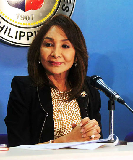 Portrait of Cebu Representative and Deputy Speaker Gwendolyn Garcia. The original caption is as follows: “NO BBL, CHA-CHA CONFLICT. House Deputy Speaker Gwendolyn Garcia and Rep. Mohamad Khalid Dimaporo (1st District, Lanao del Norte) stressed during the bi-monthly press briefing on Monday that there is no conflict in the ongoing efforts of the House to approve the Bangsamoro Basic Law (BBL) and Charter change initiatives to shift to a federal system of government. Garcia said that in so far as Cha-cha is concerned, this may further strengthen the BBL or what may be passed on March 21. Dimaporo, one of the authors of four bills seeking the creation of the Bangsamoro region, said it did not matter which gets approved first because both BBL and federalism were campaign promises of President Duterte. / GE/RBB” This file has been extracted from another file: Gwendolyn Garcia and Mohamad Khalid Dimaporo.jpgoriginal file